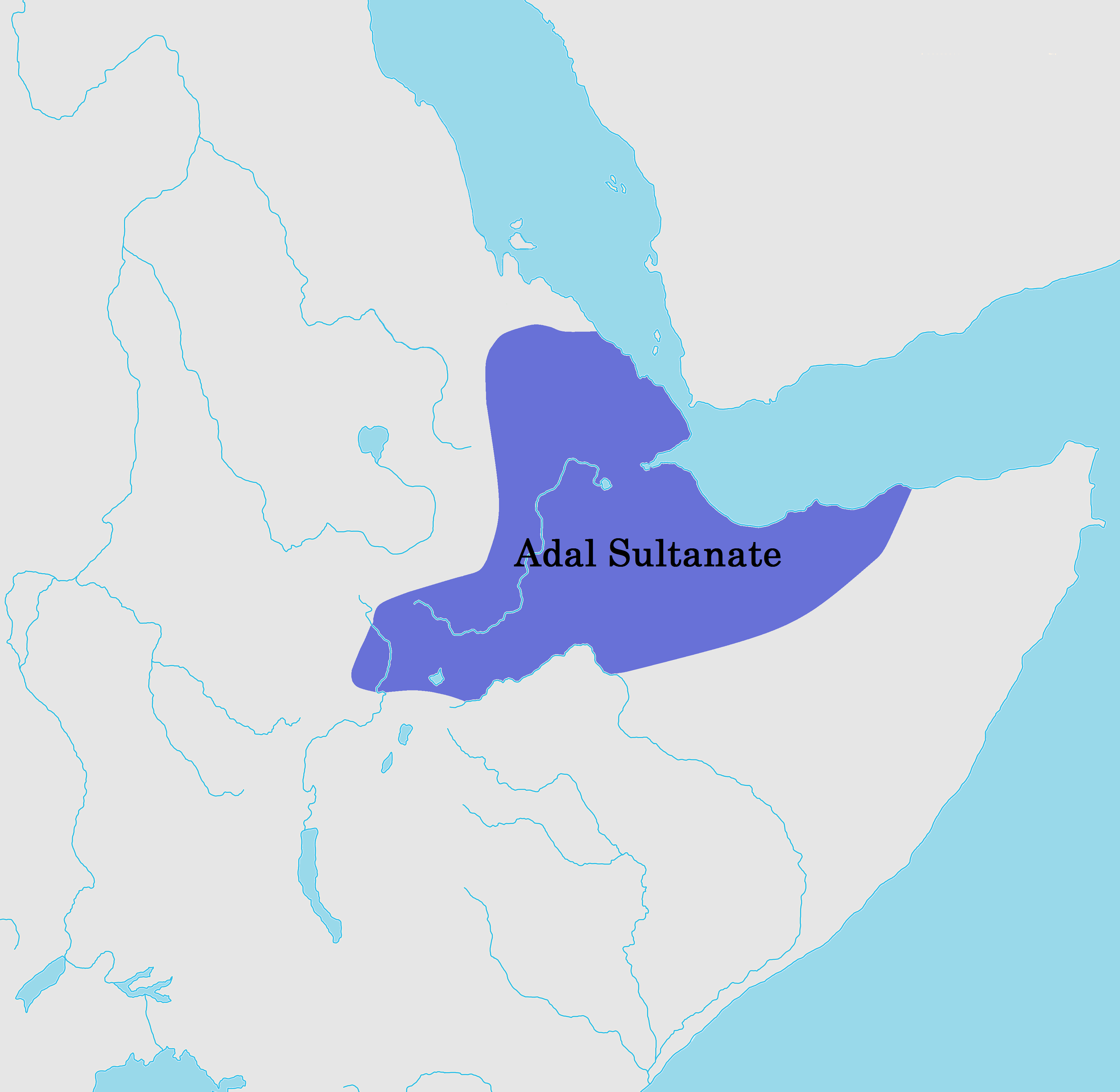 The Adal Sultanate at its height.